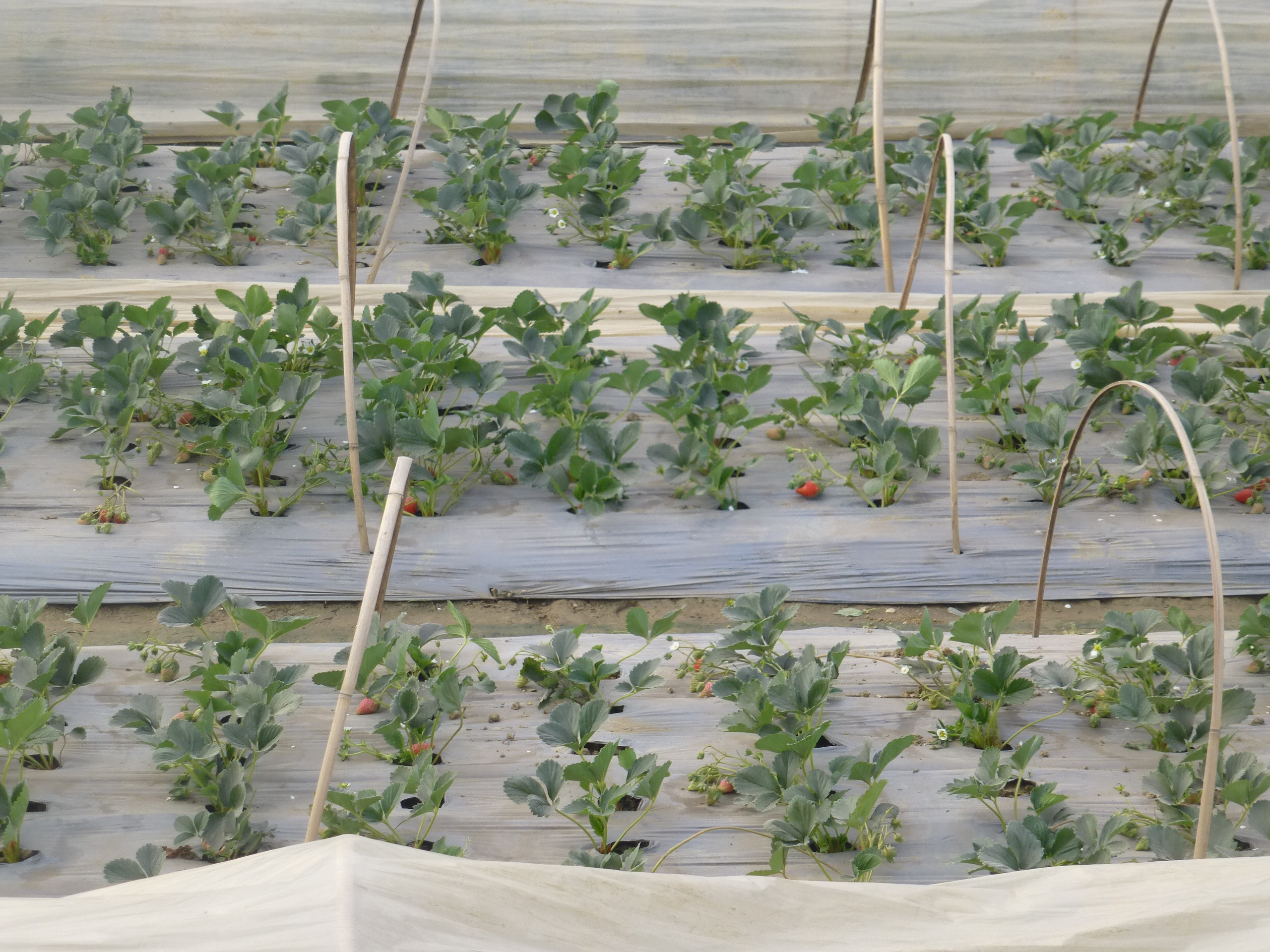 Strawberry fields in Beicheng Subdistrict, Hongta District, Yuxi, Yunnan